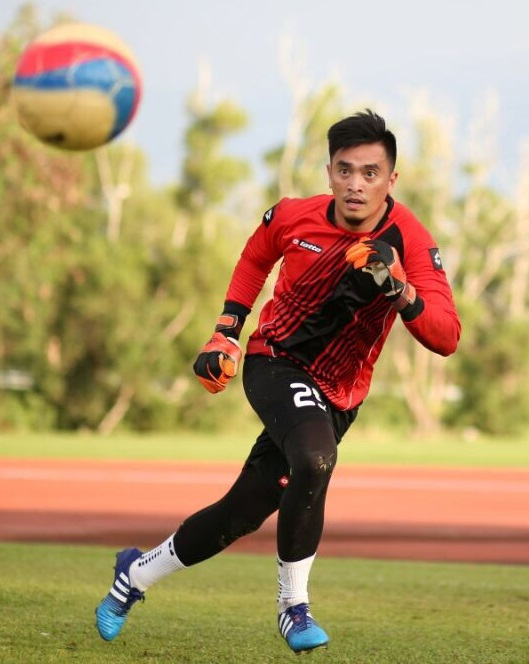 Wardun Yussof during a training session